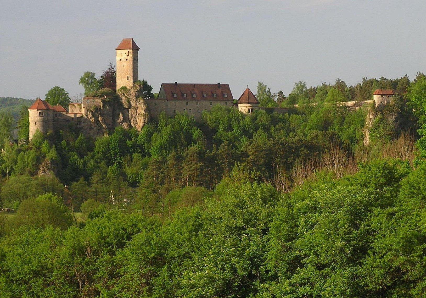 Distant look to castle Veldenstein (near the german town of Velden)